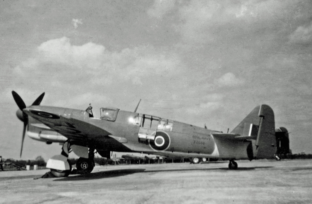 Fairey Firefly FR.1 Z2030 of the Fleet Air Arm at Manchester (Ringway) Airport wearing late WW2 markings